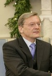 Wolfgang Schüssel, Chancellor of Austria, during a visit to the White House on December 8, 2005.